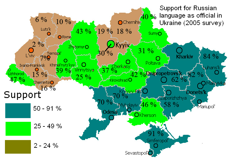 Support for Russian language in Ukraine in different regions of the country